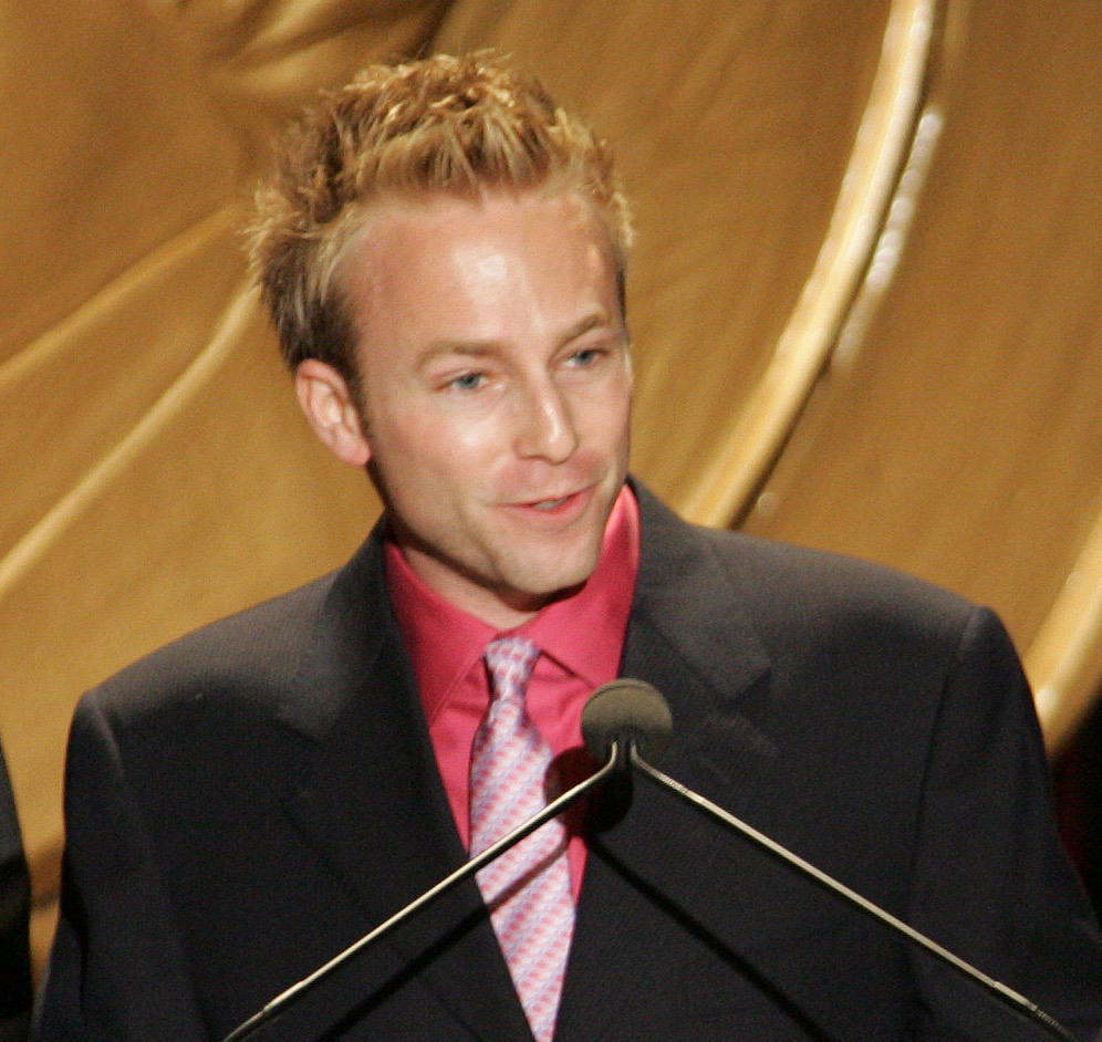 Seth Doane at the 64th Annual Peabody Awards ceremony, held at the Waldorf-Astoria Hotel, in New York. He was accepting a 2004 Peabody Award for the program The Suffering of Sudan, for Channel One News.